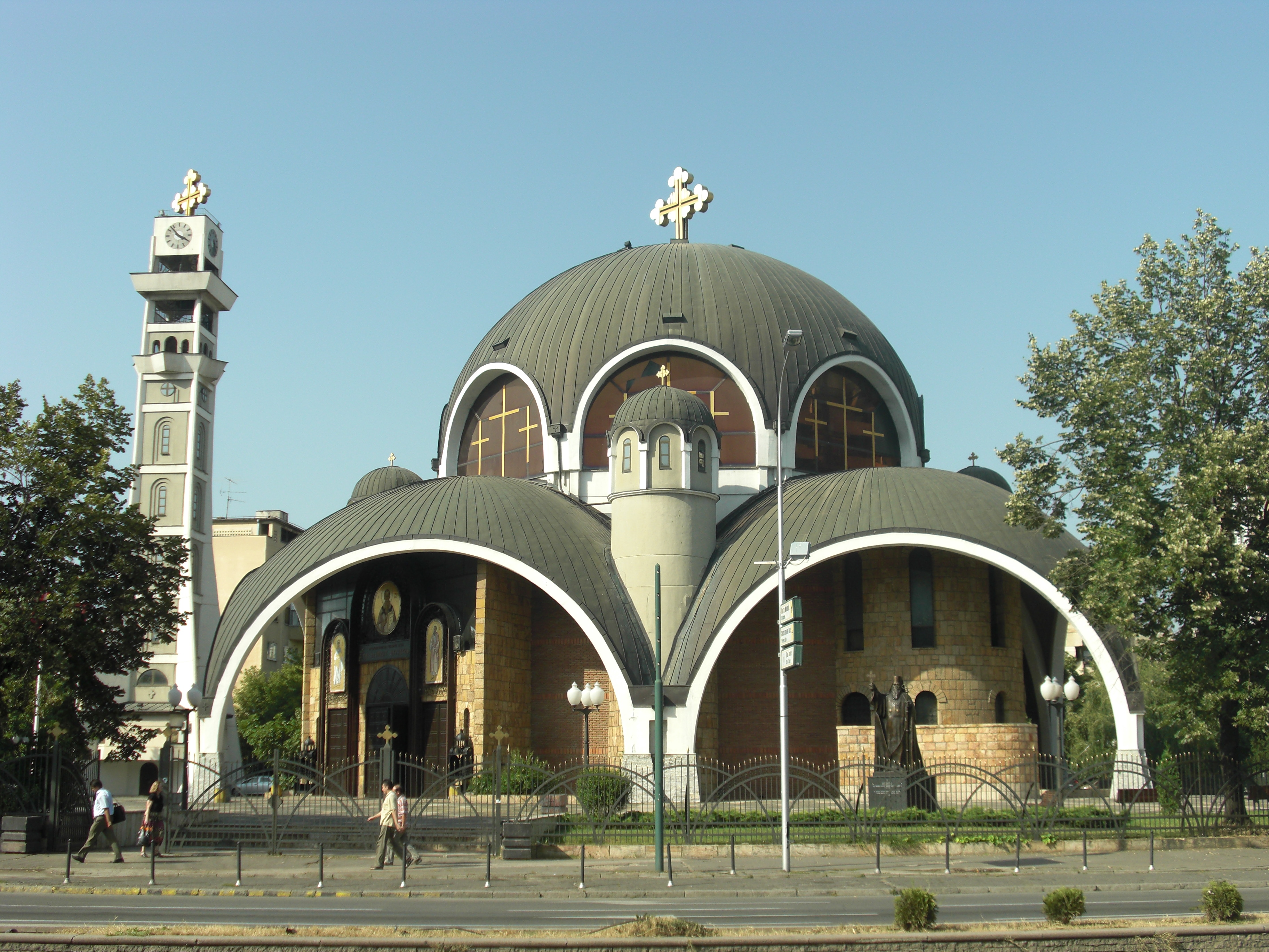 Soborna Church in Skopje, Macedonia